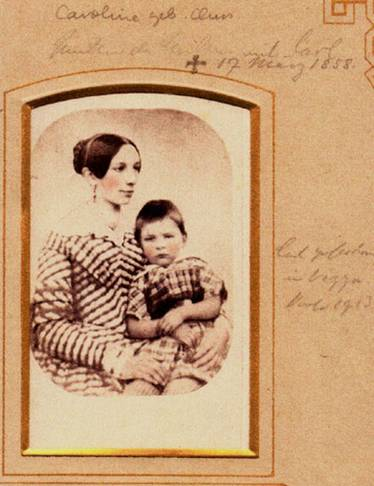 Caroline Cluss de Millas (1817-1858), and her oldest son Carl (1841-1913).